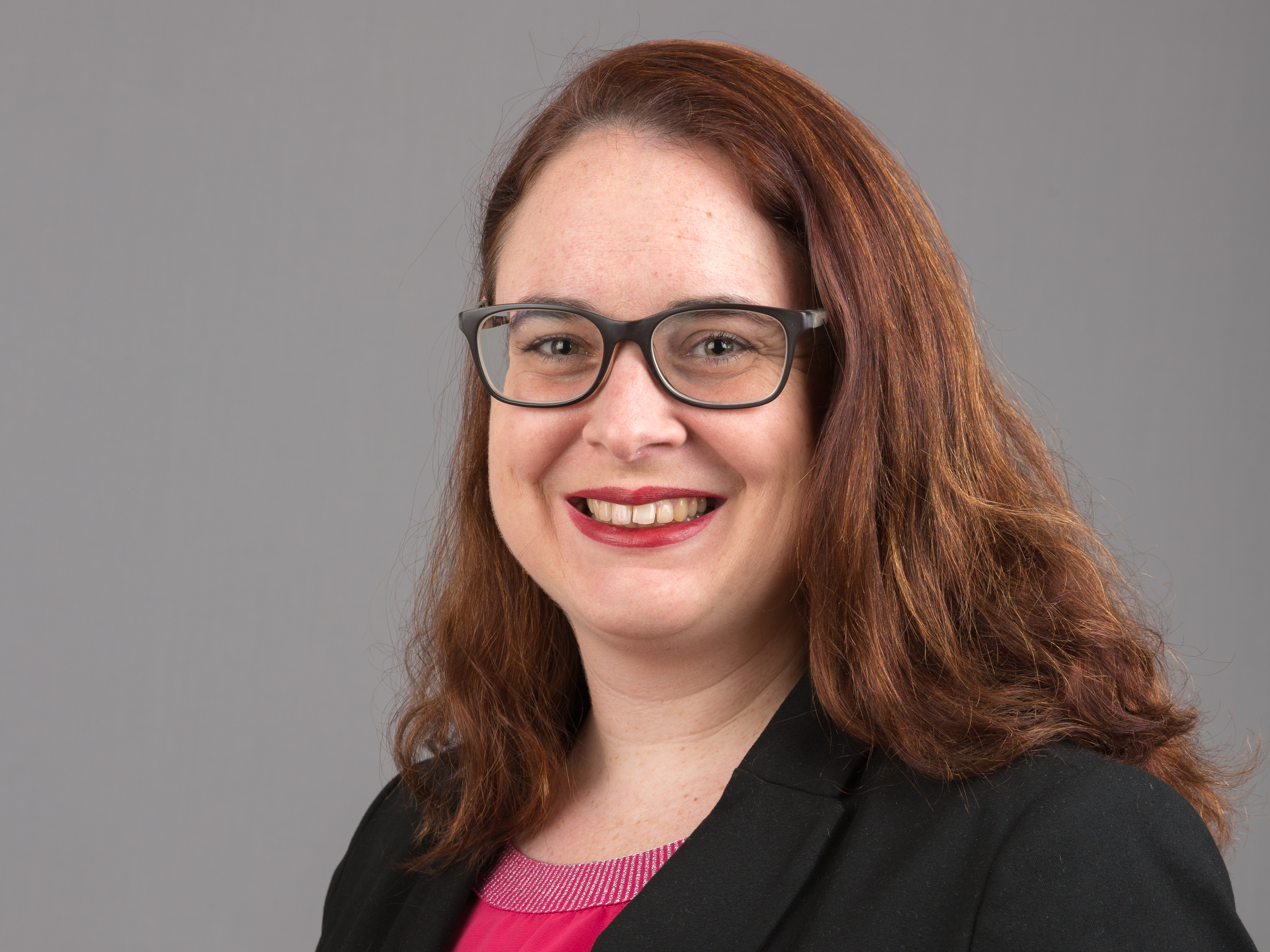 Lisa Gnadl, member of the Landtag of Hesse